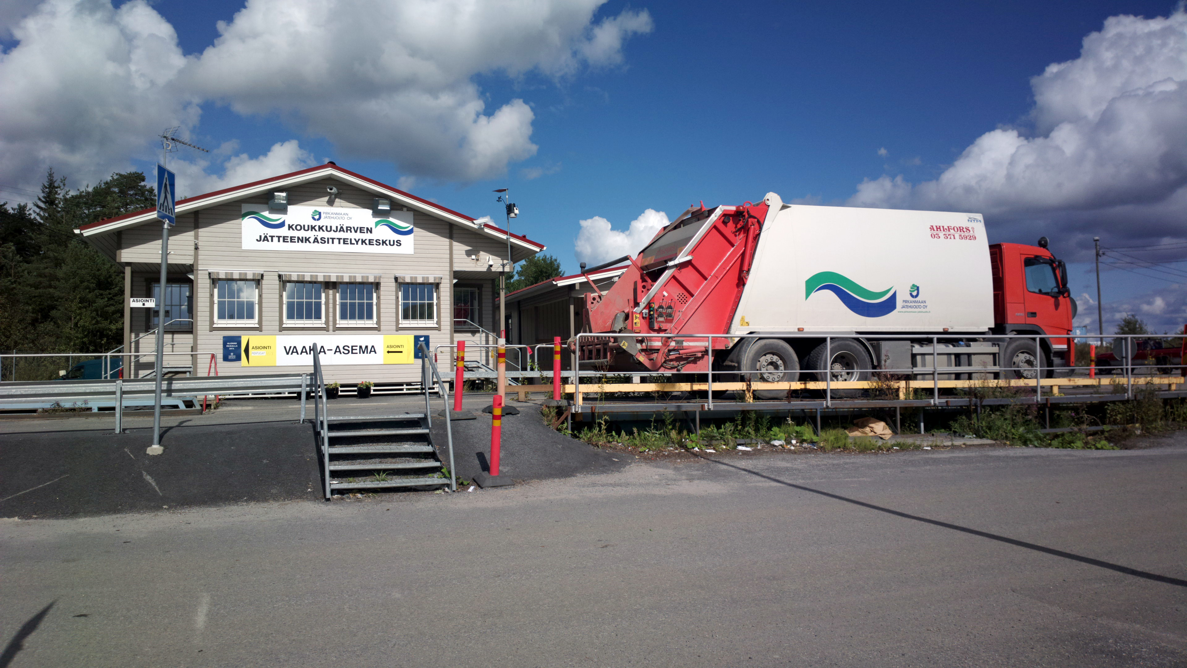 Koukkujärvi waste treatment centre